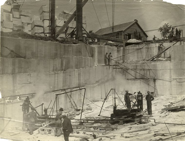 Additional metadata available with original item.